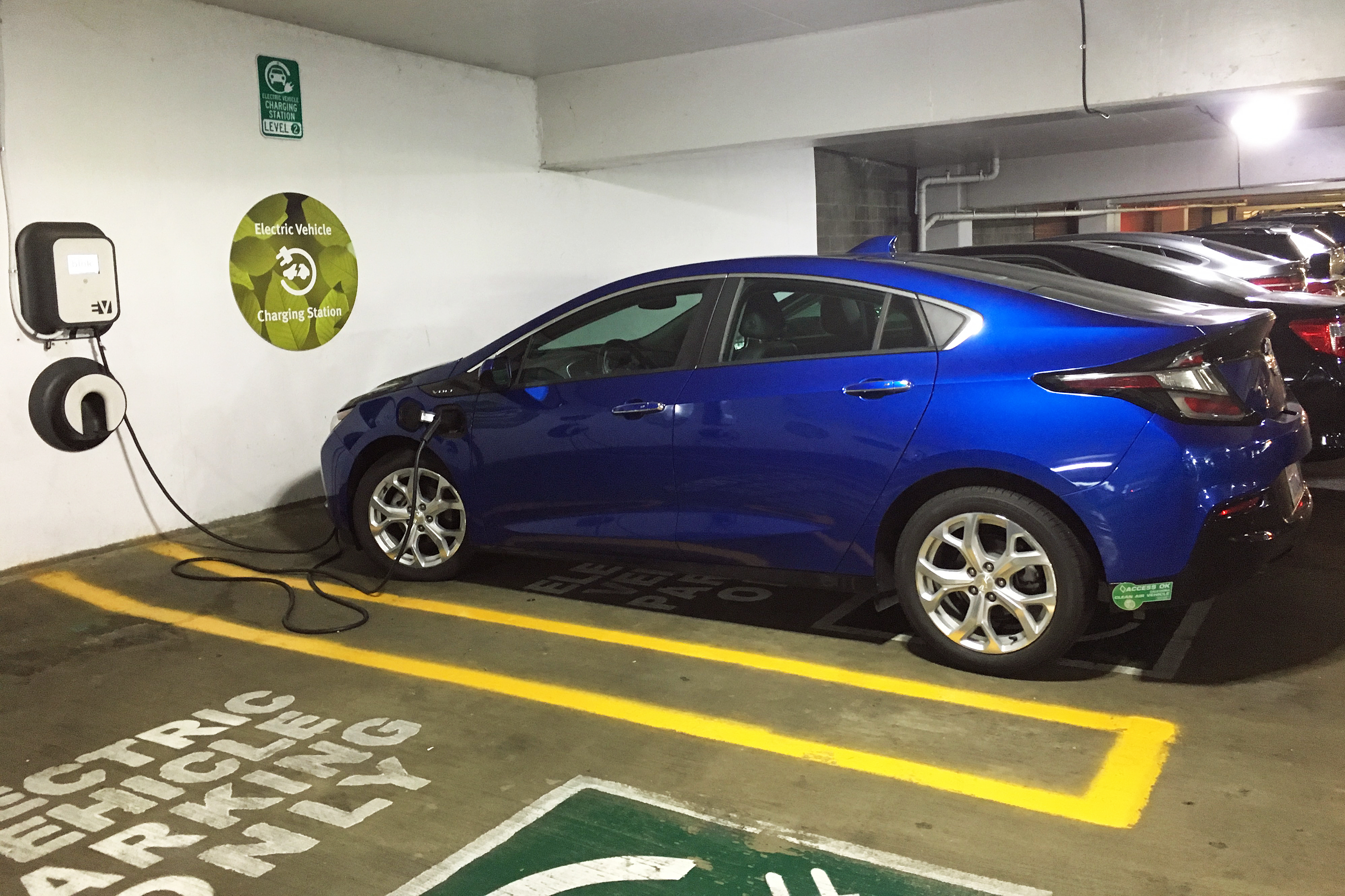 Chevrolet Volt (2nd gen) charging at a garage Level 2 EV charging station at Fashion Centre at Pentagon City, Arlington, Virginia.